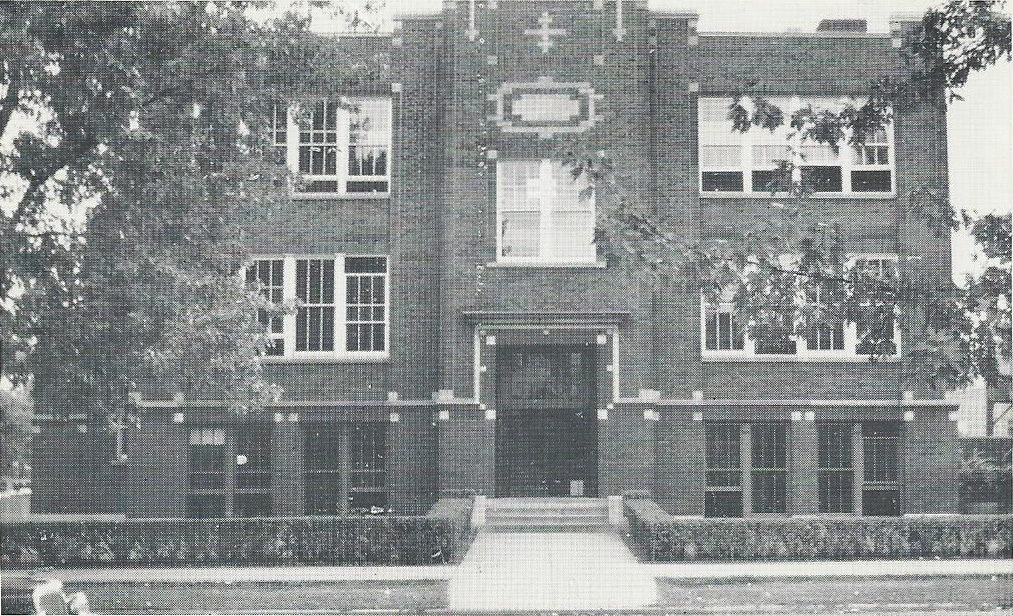 Exterior of Clinton (Indiana) Junior High School